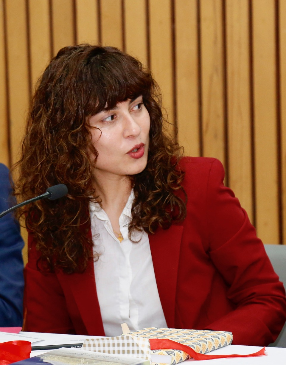 Divya Dwivedi, writer and philosopher of India, speaking about philosophy and politics on the occasion of her book launch, Gandhi and Philosophy, at the India International Centre